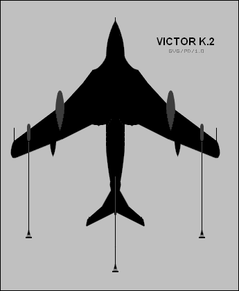 orthographic outline of Handley Page Victor K Mark 2